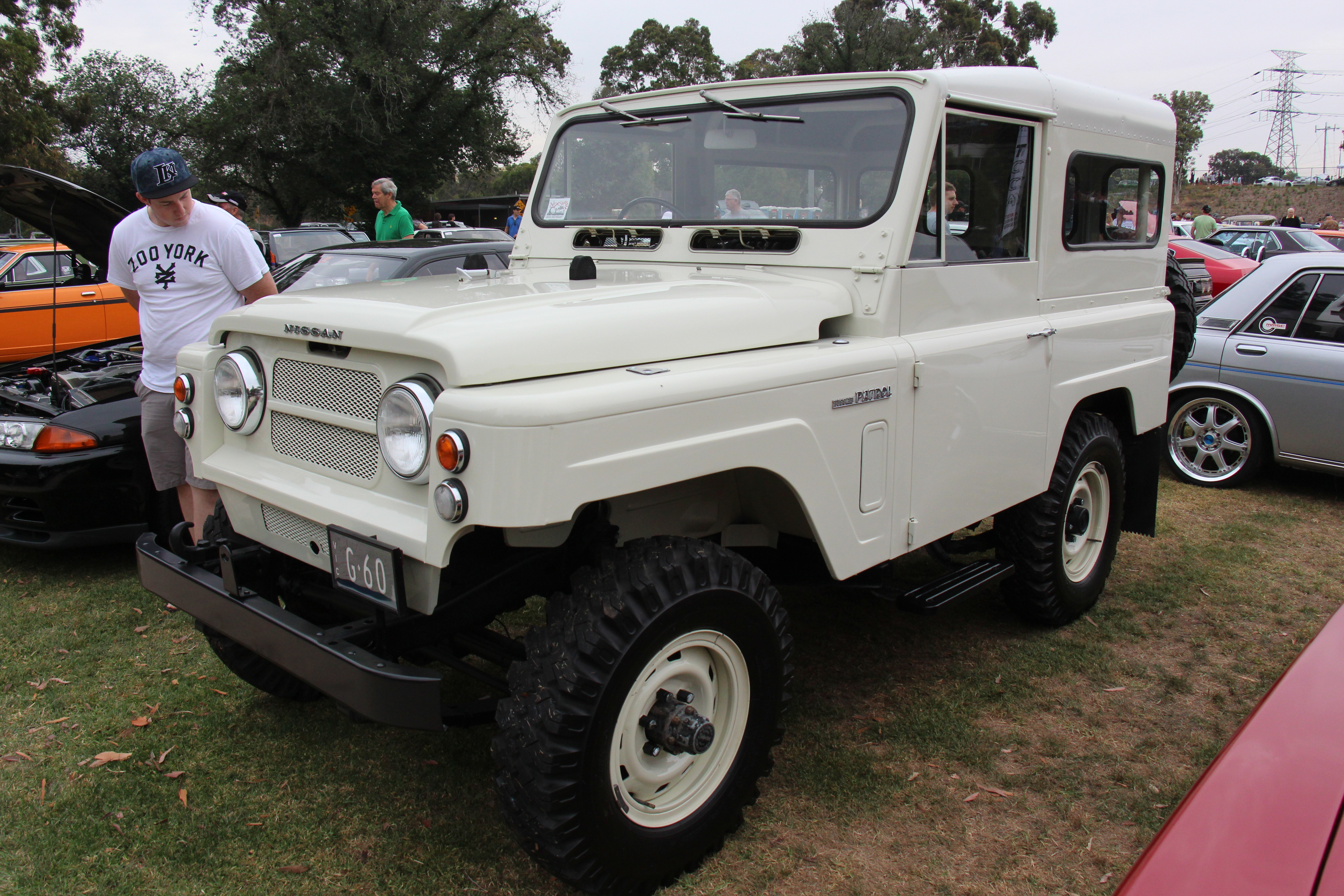 The 60 Series was the 2nd generation Patrol, built from 1960-1970. They were produced in short, medium and long wheel-base versions, soft and hard tops. The motor was the P engine, a 3,956 cc (241.4 cu in) inline overhead-valve six-cylinder Nissan Australia claim that the 60 series Patrol was the first vehicle to drive across the Simpson Desert in Australia